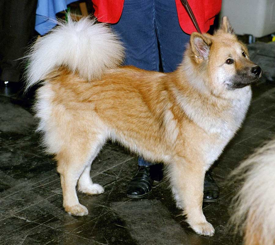 Image was originally missidentified as a Hokkaido (dog). Breed is unknown at this time.